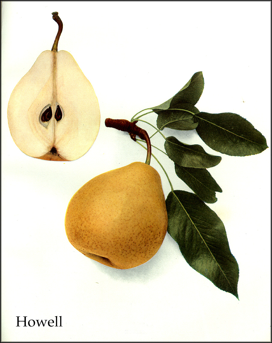 A colour plate from The Pears of New York (1921) depicting the Howell pear cultivar.